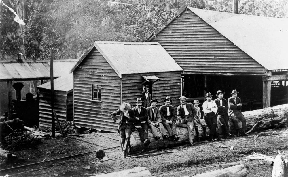 Workers pose for a photograph at Canungra Sawmill, 1918